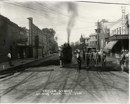 "Taylor Street Looking North, Oct. 1930." Work crew repaving street.